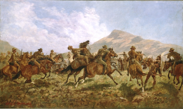 Australians and New Zealanders at Klerksdorp, 24 March 1901 by Charles Hammond (1904, oil on canvas, 77 cm x 127.6 cm). AWM Caption: Being the furious moment depicted in this painting occurred during an action near Klerksdorp in the Transvaal, about 160 kilometres south-west of Johannesburg, during Lord Metheun's operations in the district after the fall of Klerksdorp itself, against the forces of Boer General De la Rey. This art work was inspired by an illustration by British military artist R Caton Woodville, which appeared in 'The Illustrated London News'.